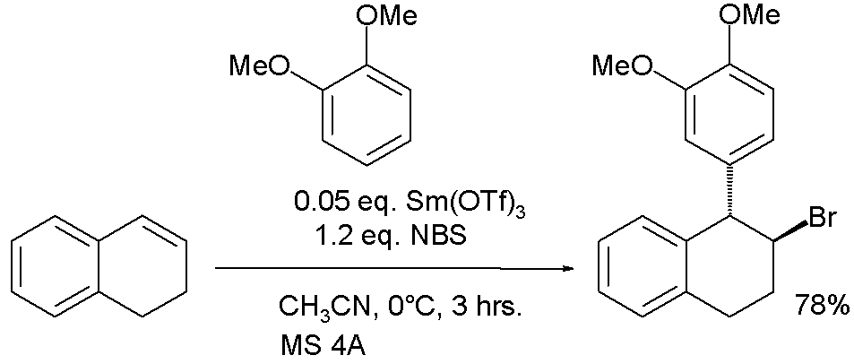 F-C alkylation with an alkene during a bromonium ion intermediate